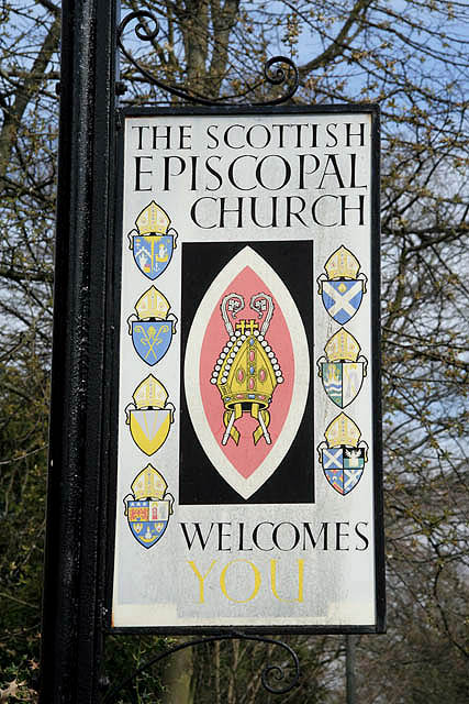 Episcopal Church sign. Outside Holy Trinity Church 774949 in High Cross Avenue.